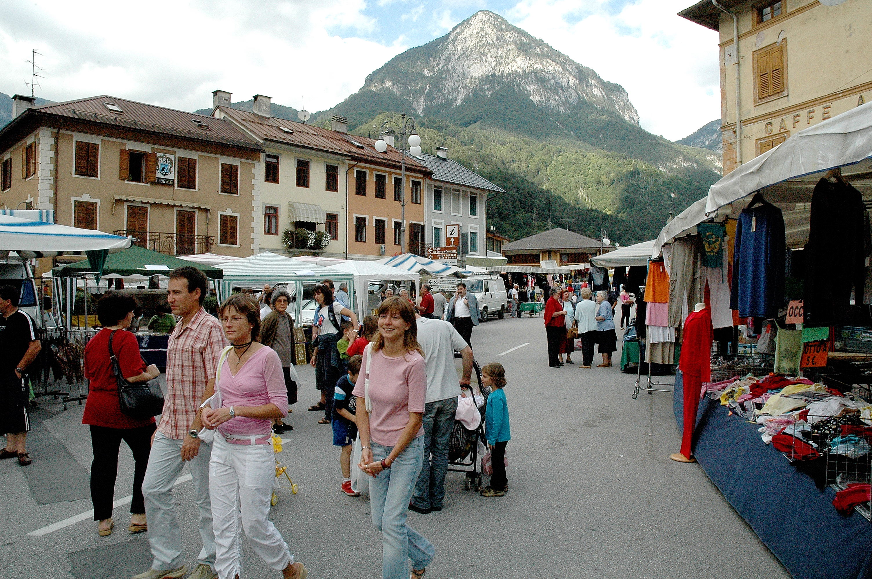 Market day at the feast of Our Lady of Charity in Pontebba ((german: Pontafel) in Friuli-Venezia Giulia / Italy / EU